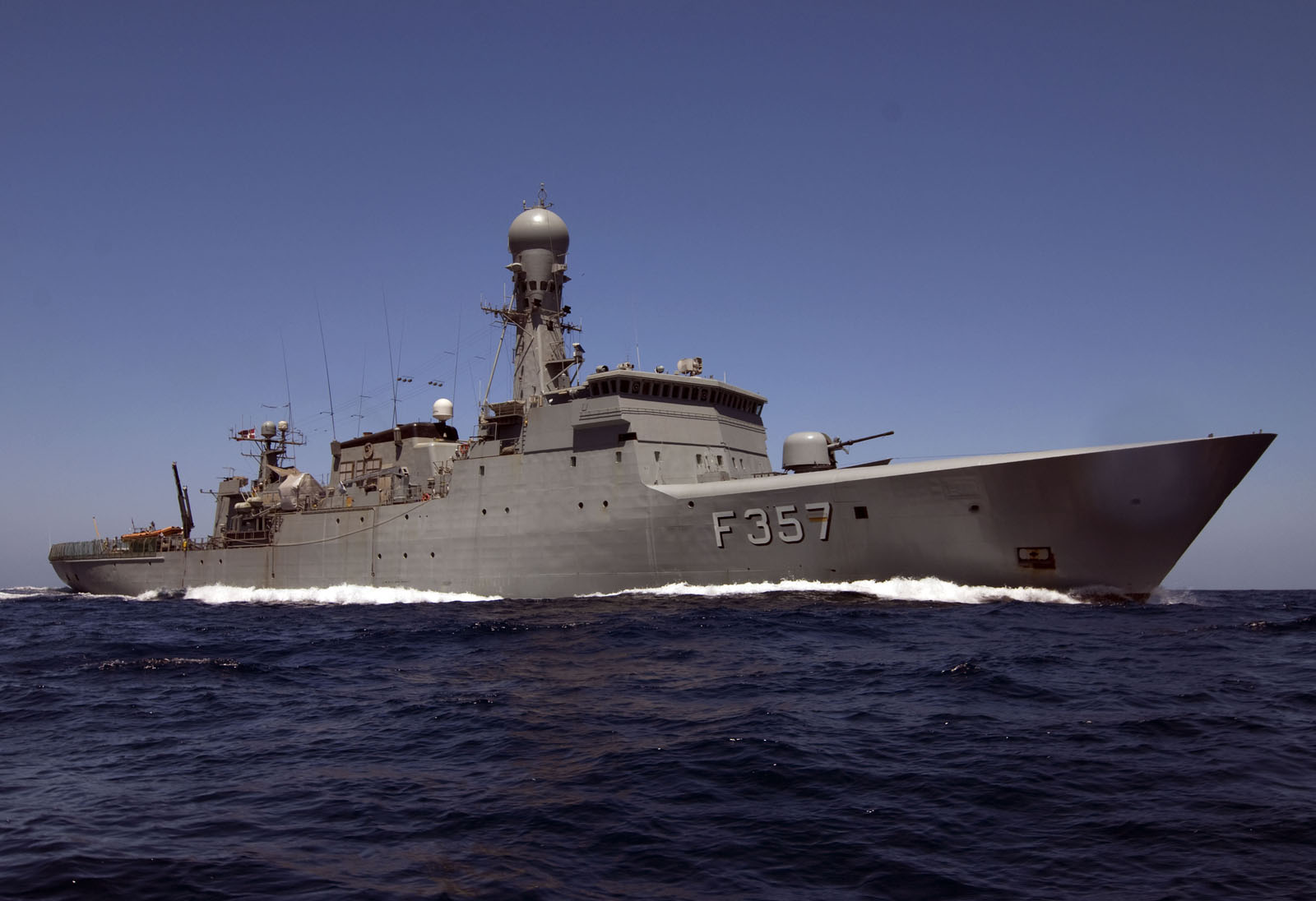 Danish navy ocean patrol vessel F357 Thetis